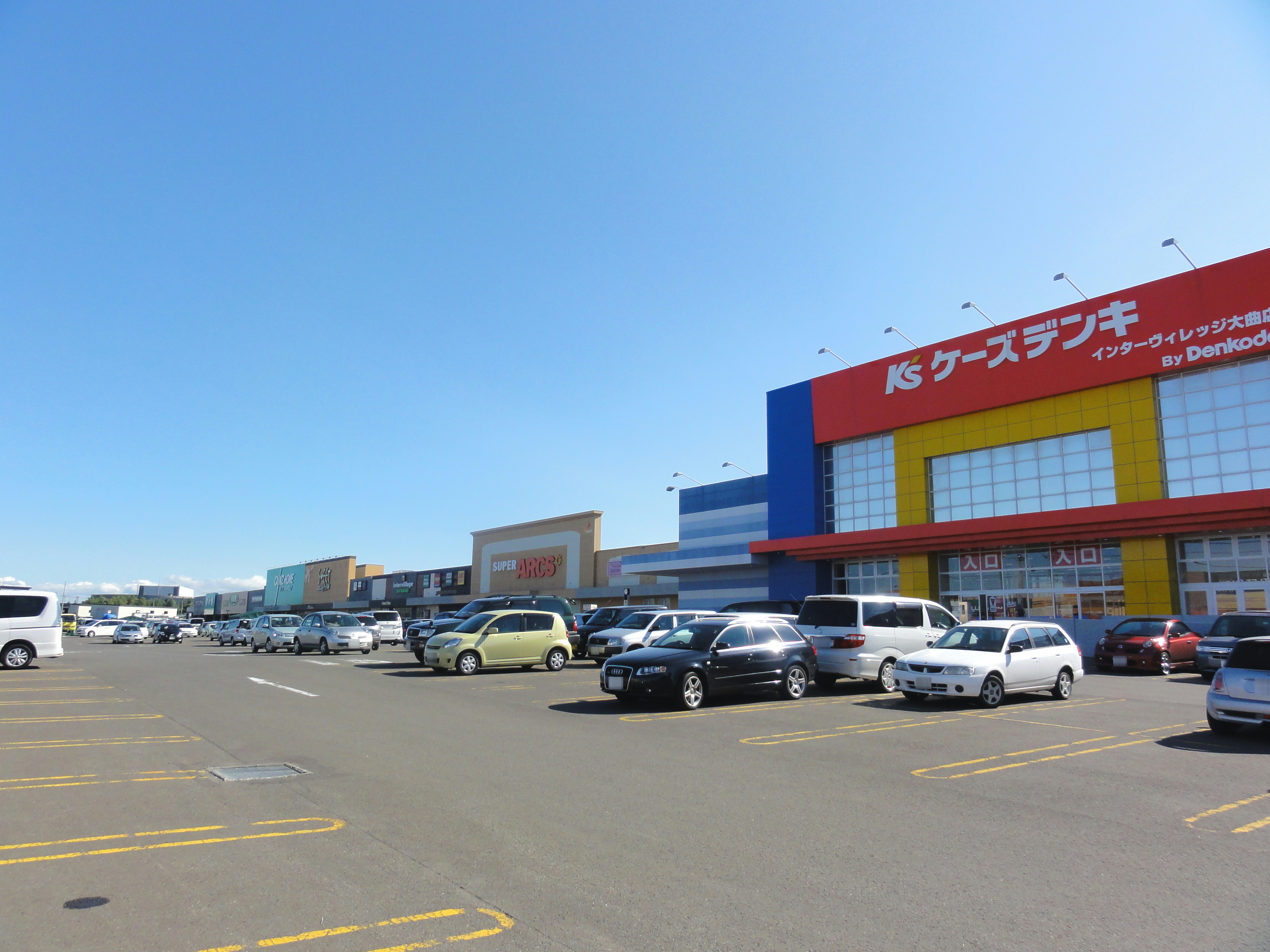 Intervillage Oh!magari in Kitahiroshima City, Hokkaido, Japan